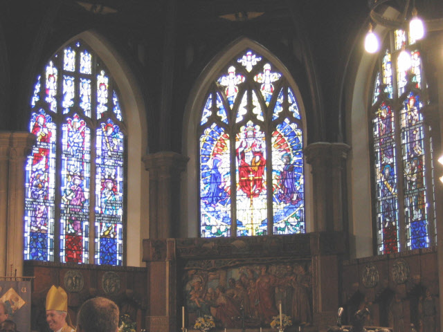 East window of St Bartholomew's. The east window of 851164, designed in 1953 by Francis Spear. The bishop in the photo (bottom left) is Christopher Chessun, Bishop of Woolwich who had just conducted an ordination service.